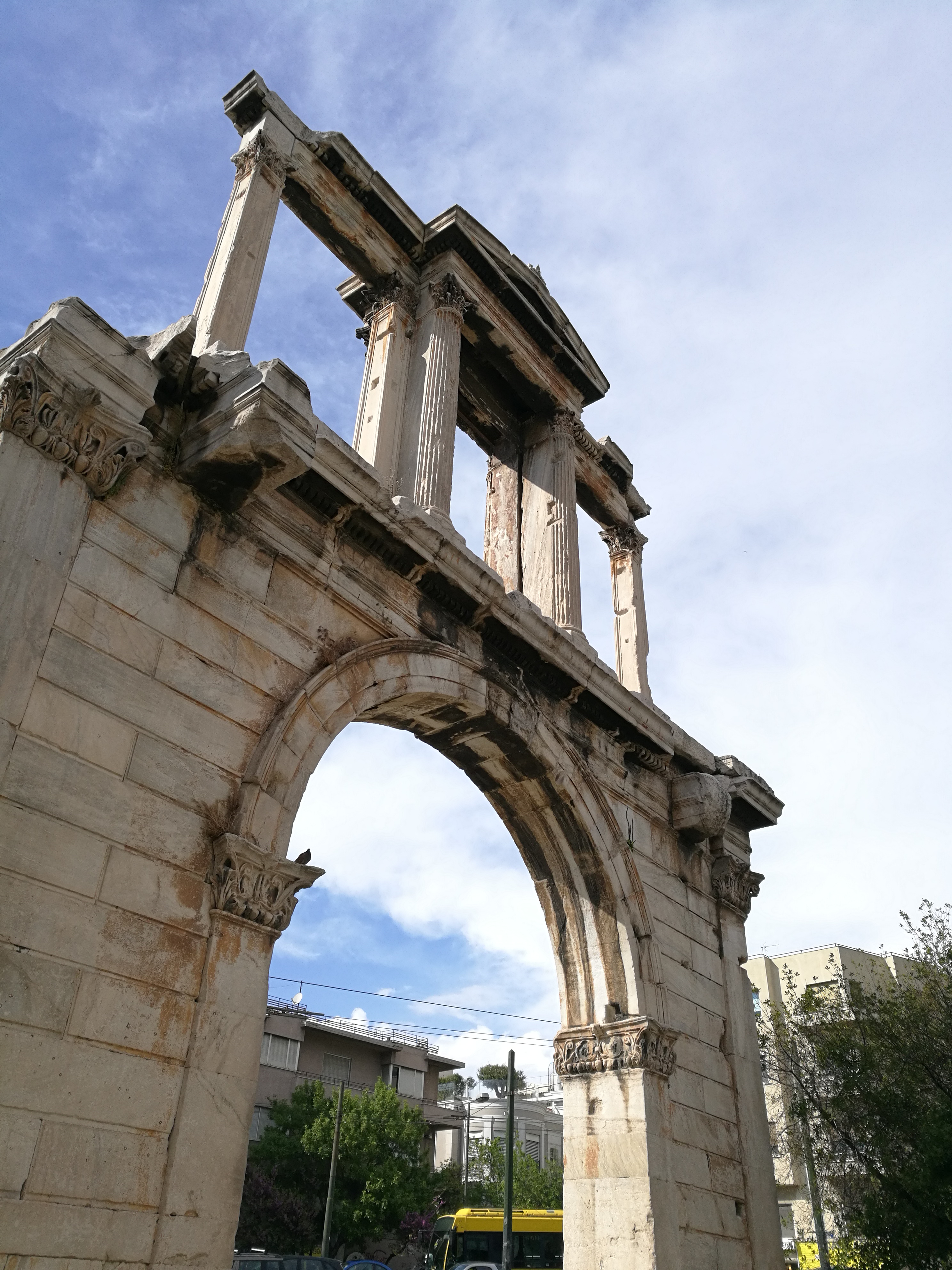 Porte d'Hadrien.